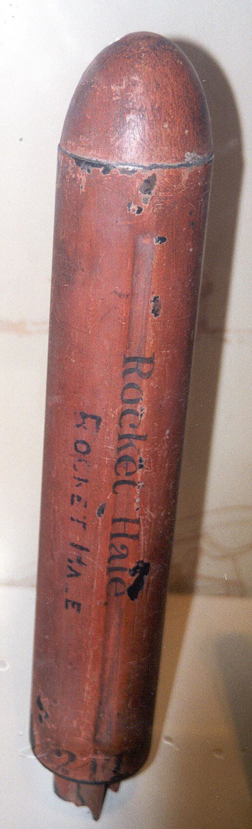 William Hale's rotary rocket.